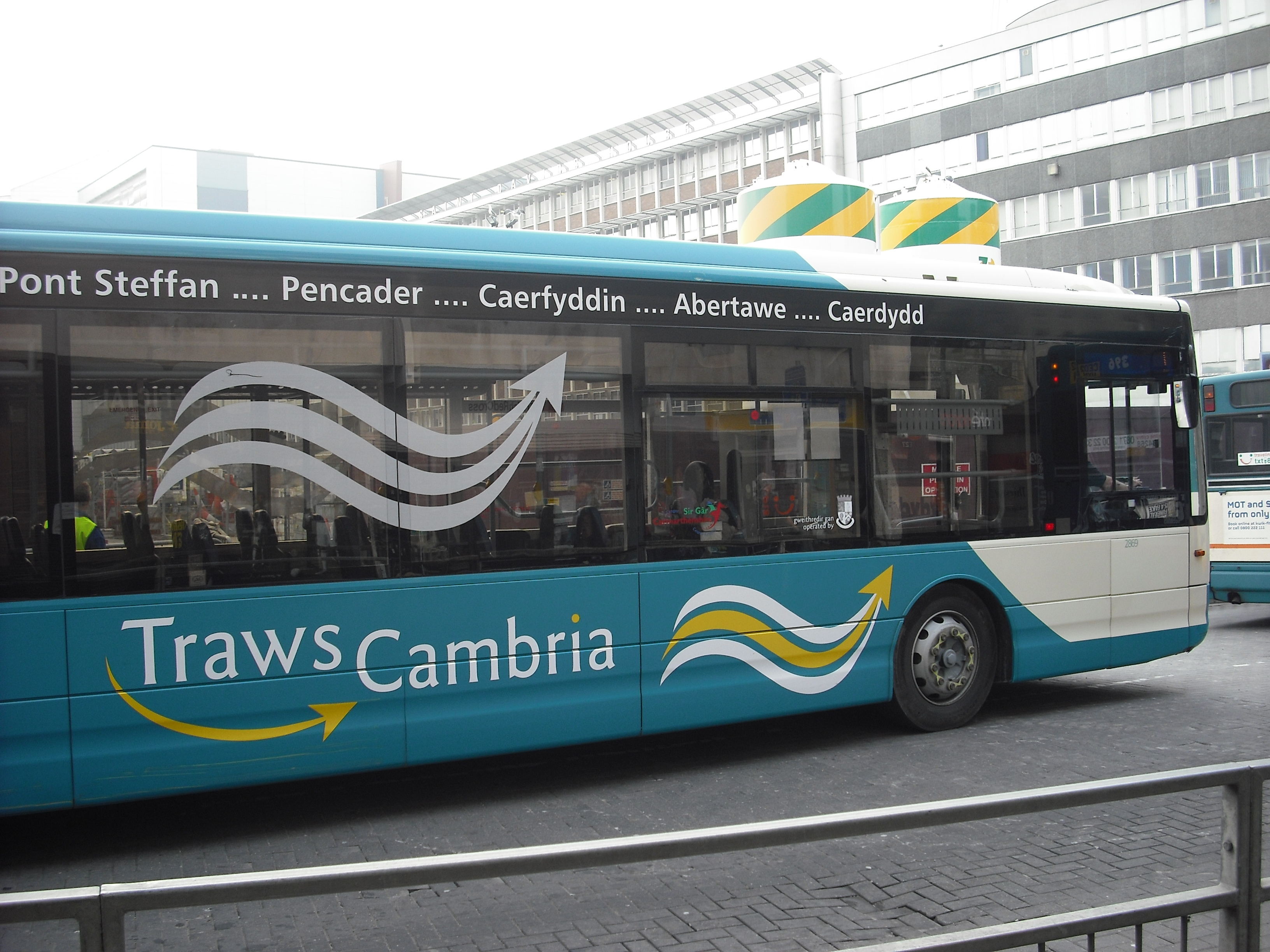 A Traws Cambria bus leaving Cardiff Central bus station.